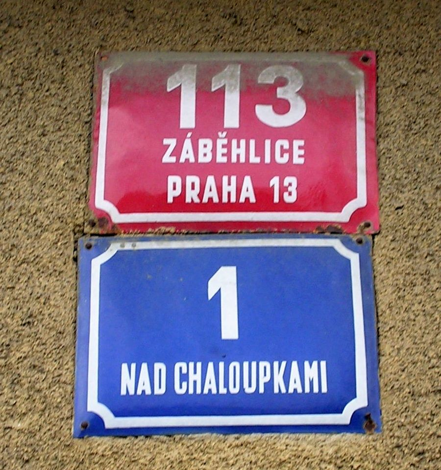 Prague house numberings (1949–1960), Czech Republic